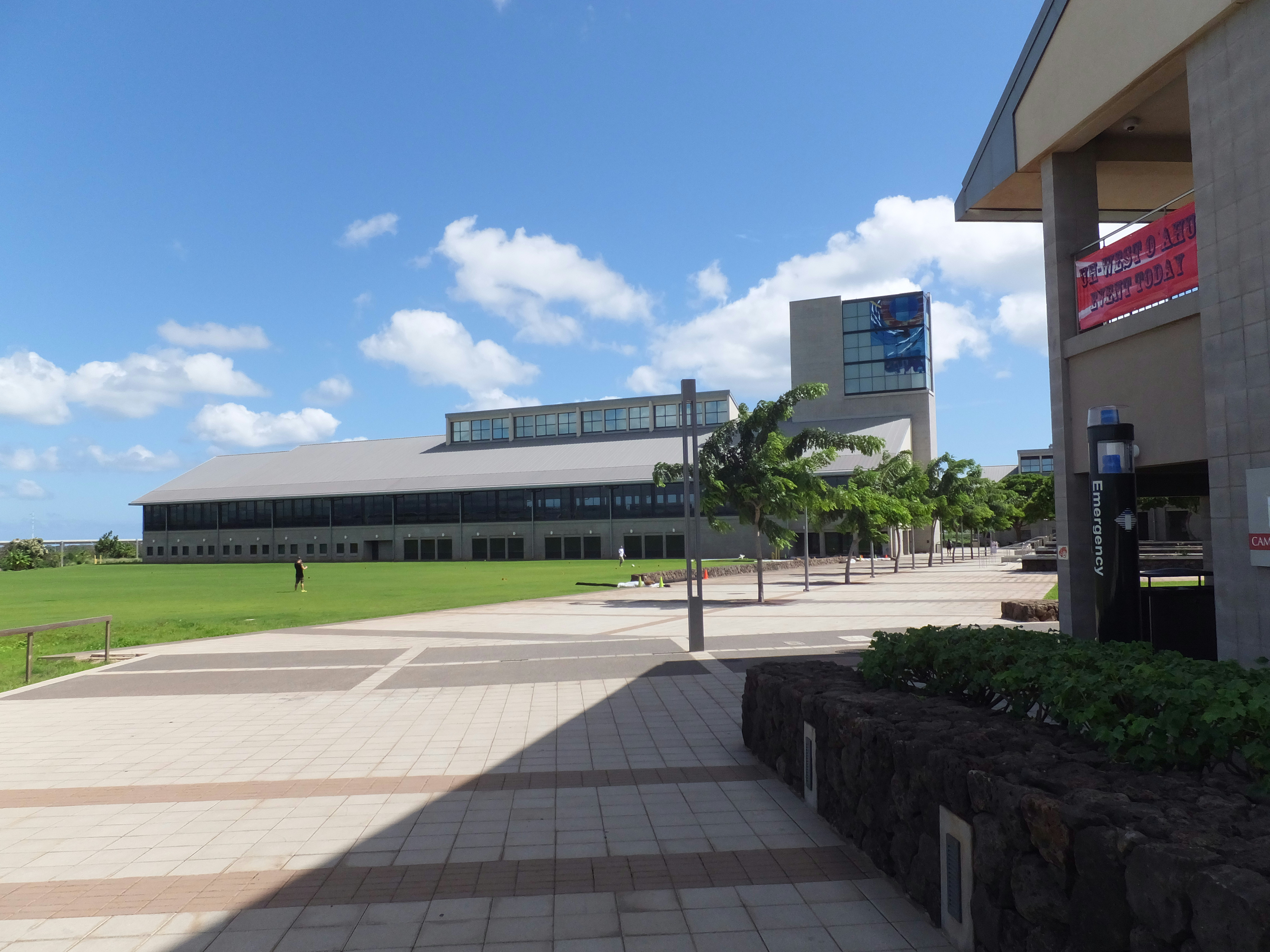 University of Hawaii–West Oahu campus(1)